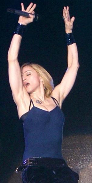 Madonna on the festival in Coachella in 2006